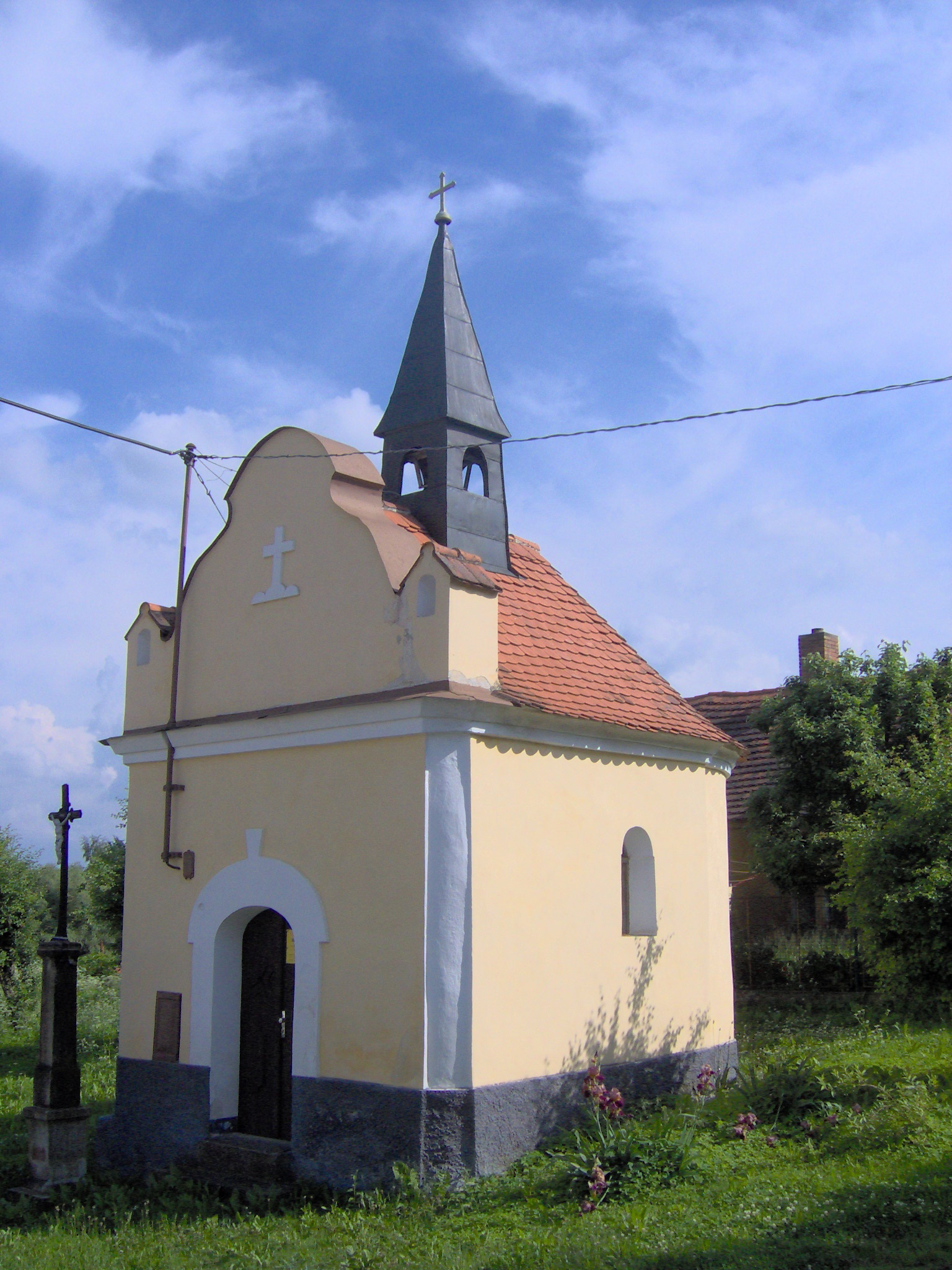 Chapel in Krty-Hradec, Strakonice District, Czech republic